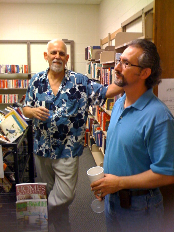 Bill Goodwin (L) and Tom Wolfe (R) at a break during a concert at the 2008 W.C. Handy Music Festival.